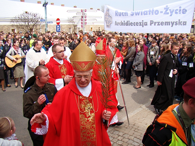 Palm Sunday in Sanok